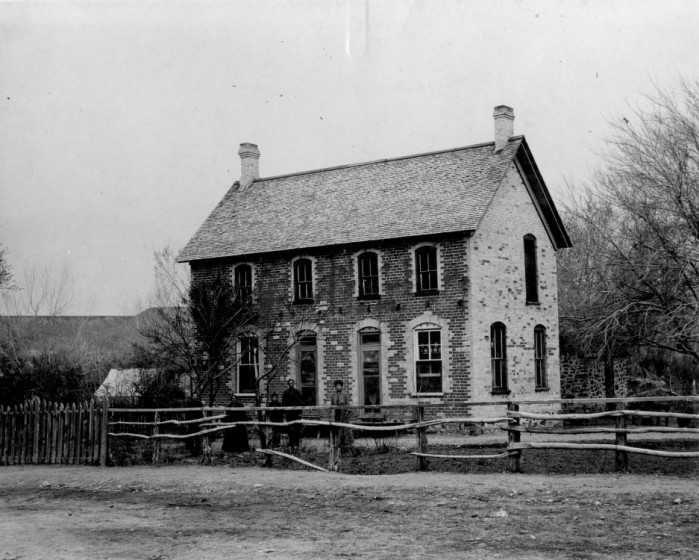 Residence of Franklin S. Leavitt, Mesquite, Nevada. Franklin Samuel Leavitt, b. 1867, was the son of Dudley and Maria (Huntsman) Leavitt. He built this brick home in Mesquite. 9.4 in. x 7.5 in. Courtesy of the J. Willard Marriott Library, University of Utah.